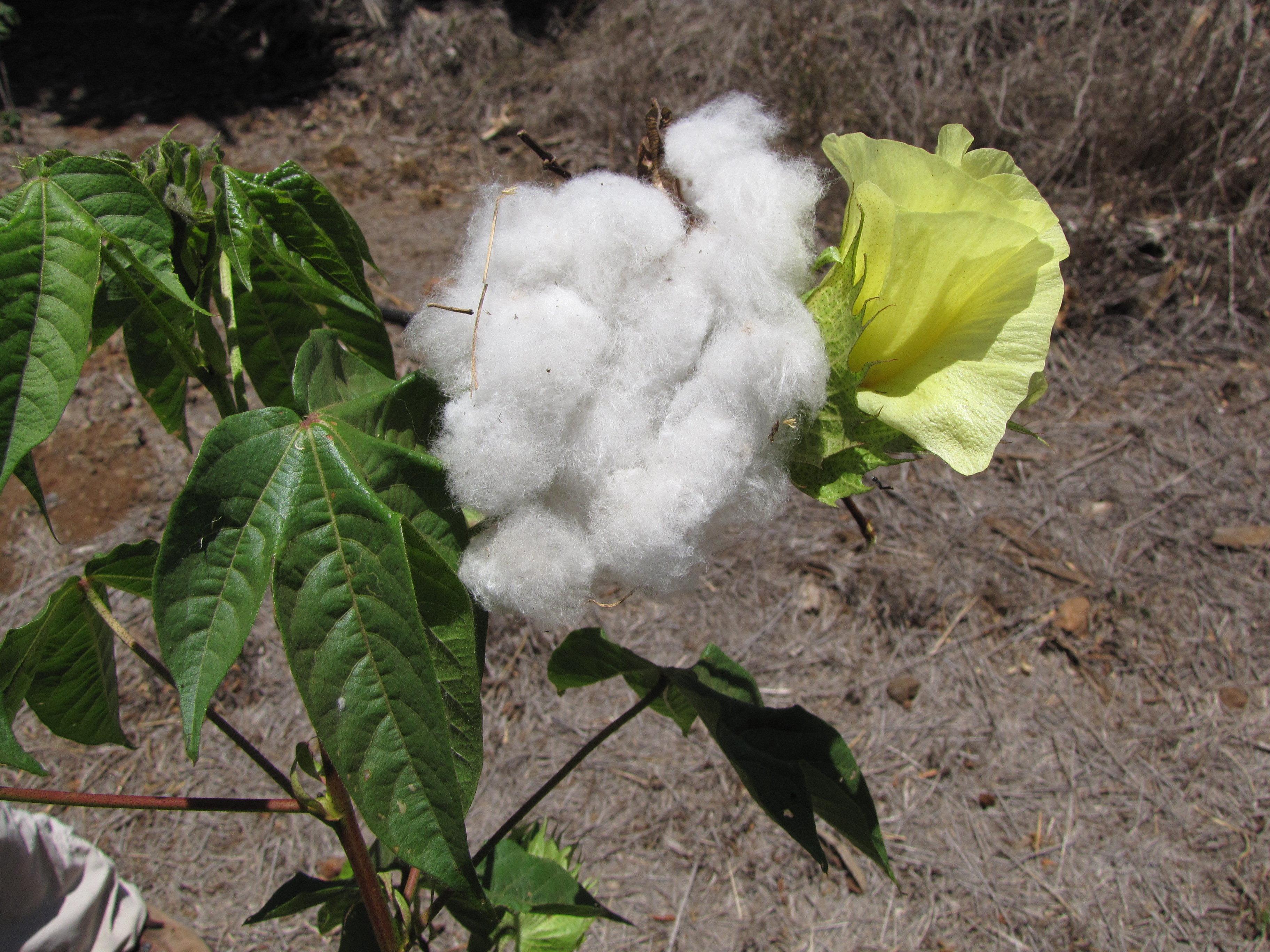 Gossypium barbadense (Sea island cotton, creole cotton, pulupulu haole) Flowers leaves cottony white seeds at Kealia Pond NWR, Maui, Hawaii. June 17, 2013 #130617-5030 - Image Use Policy